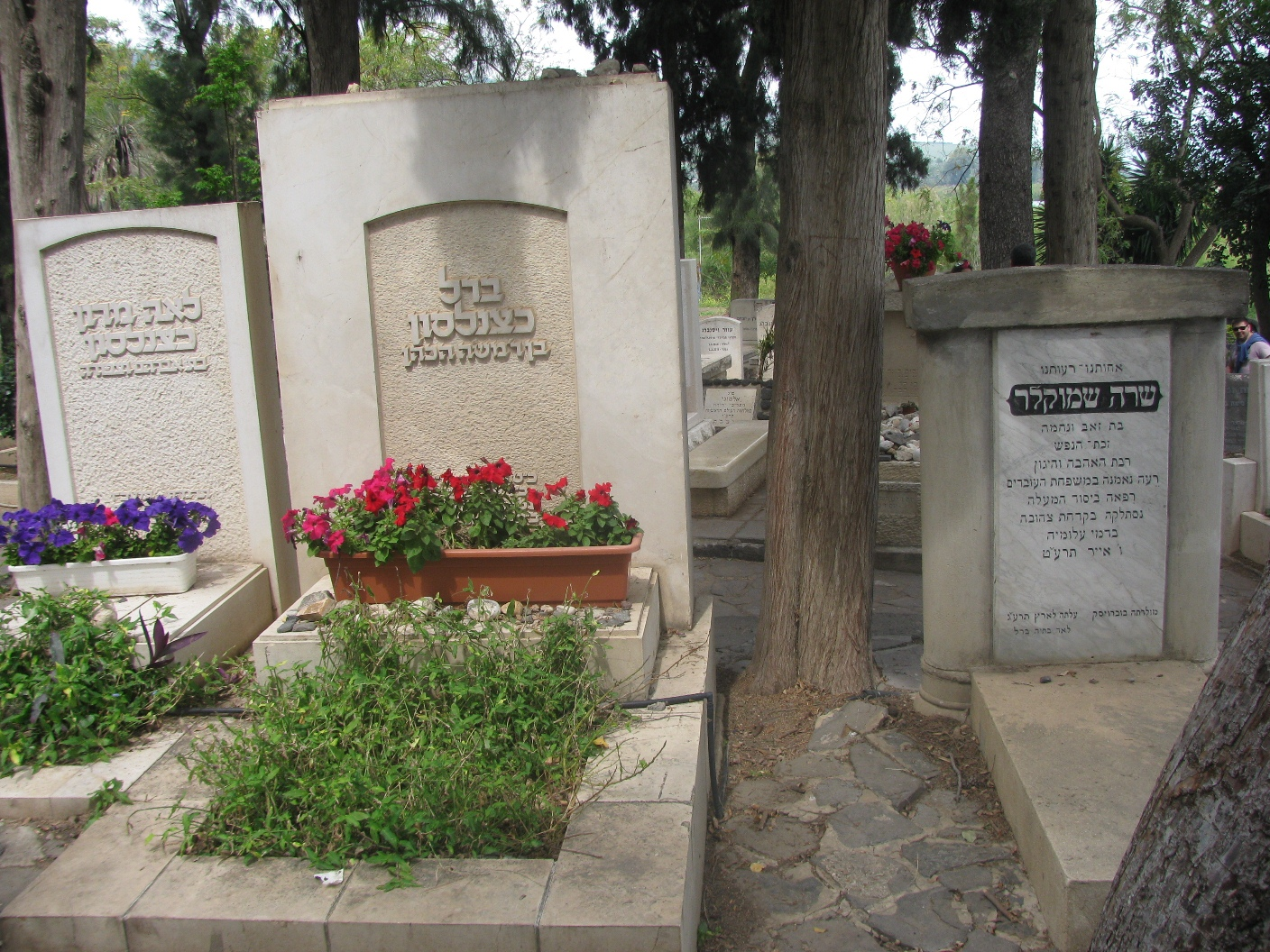 Berl Katznelson Grave